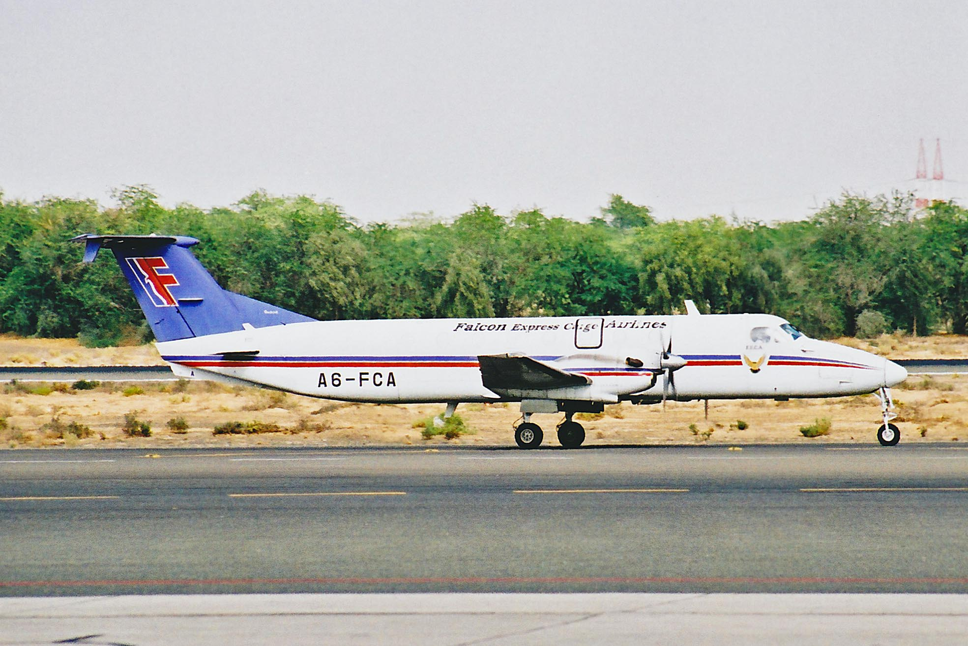 A6-FCA B.1900C-1(F) Falcon Express Cargo Al SHJ